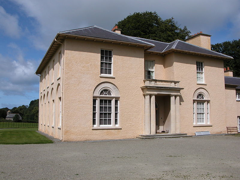 Llanerchaeron House and nearby St Non's church, near Aberaeron, Ceredigion, Wales.